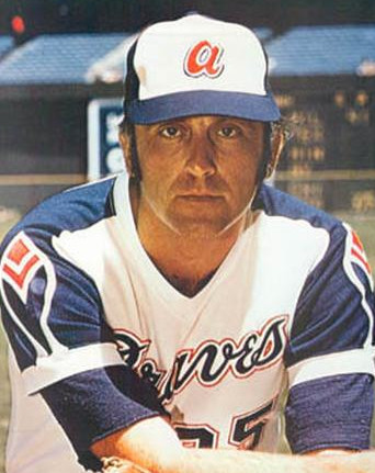 Professional baseball player Phil Niekro